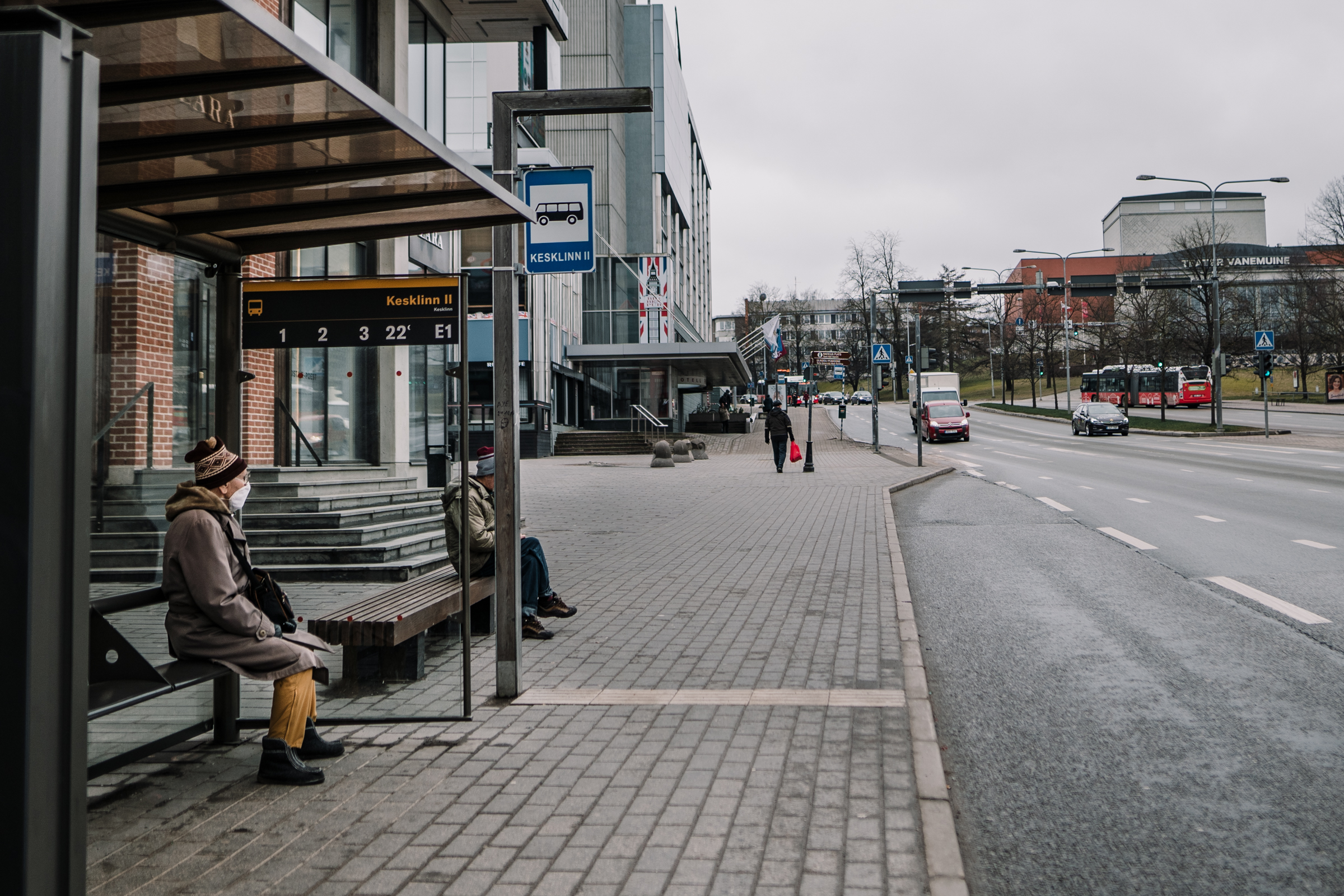 Old person wearing a mask during COVID-19 pandemic in Tartu